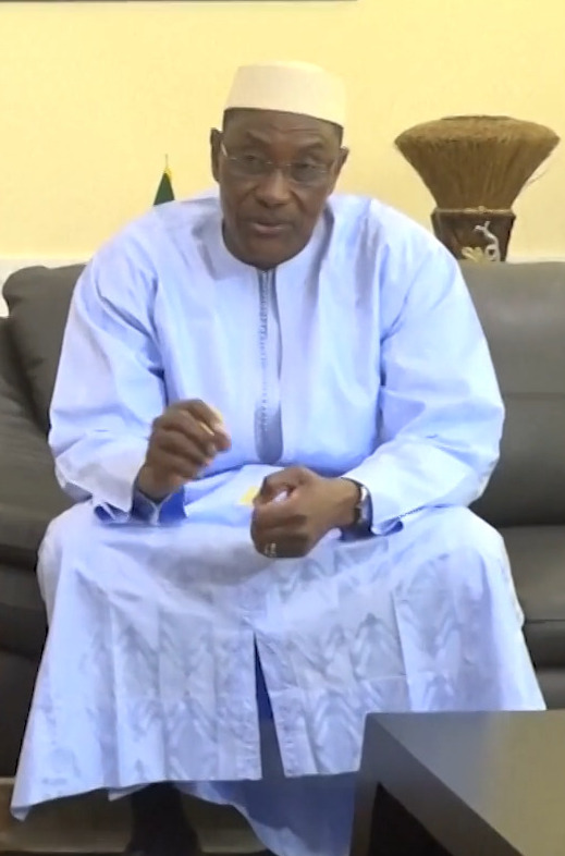 Abdoulaye Idrissa Maïga and Soumeylou Boubèye Maïga, probably in 2018